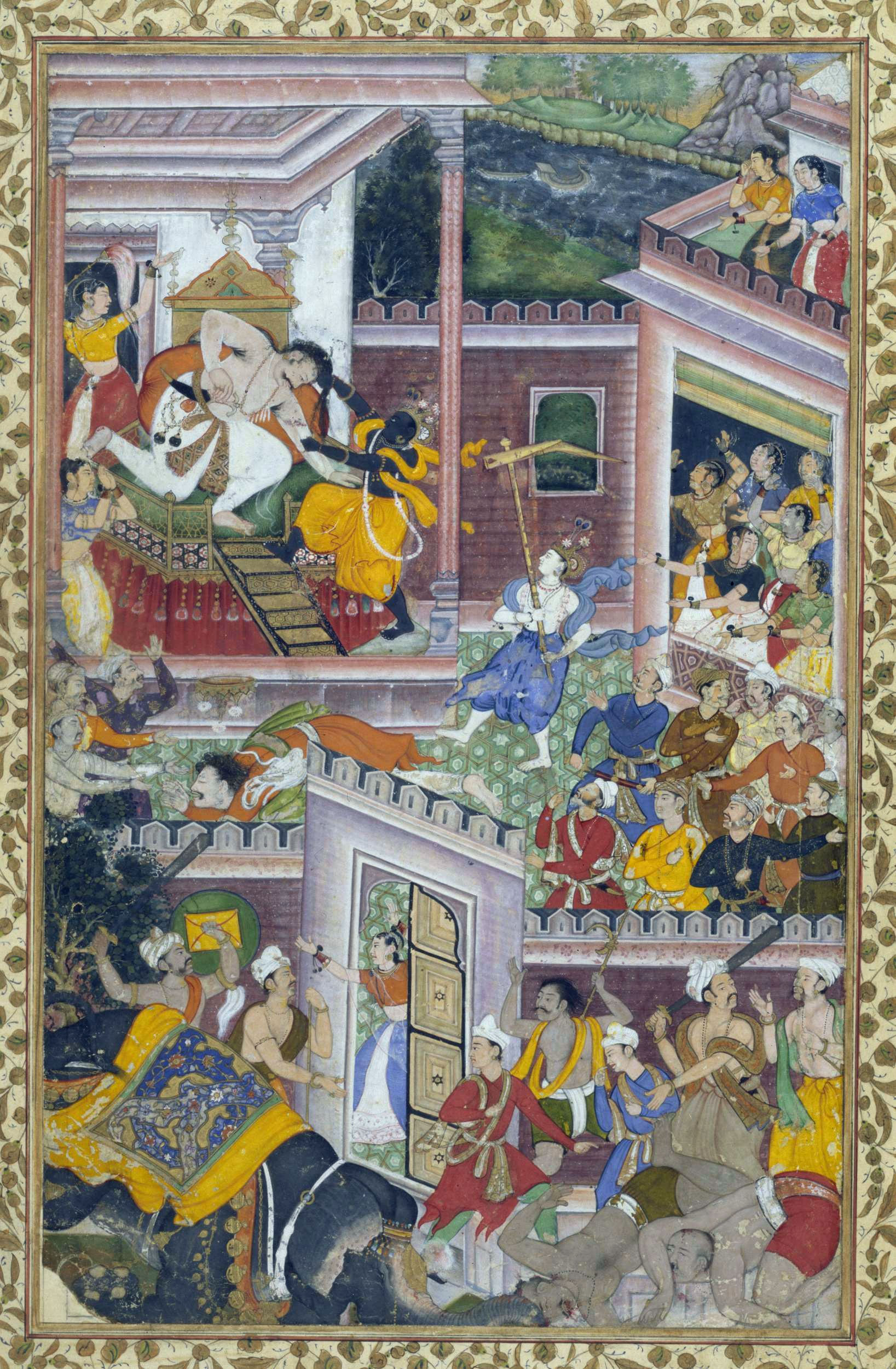 From Victoria and Albert museum.